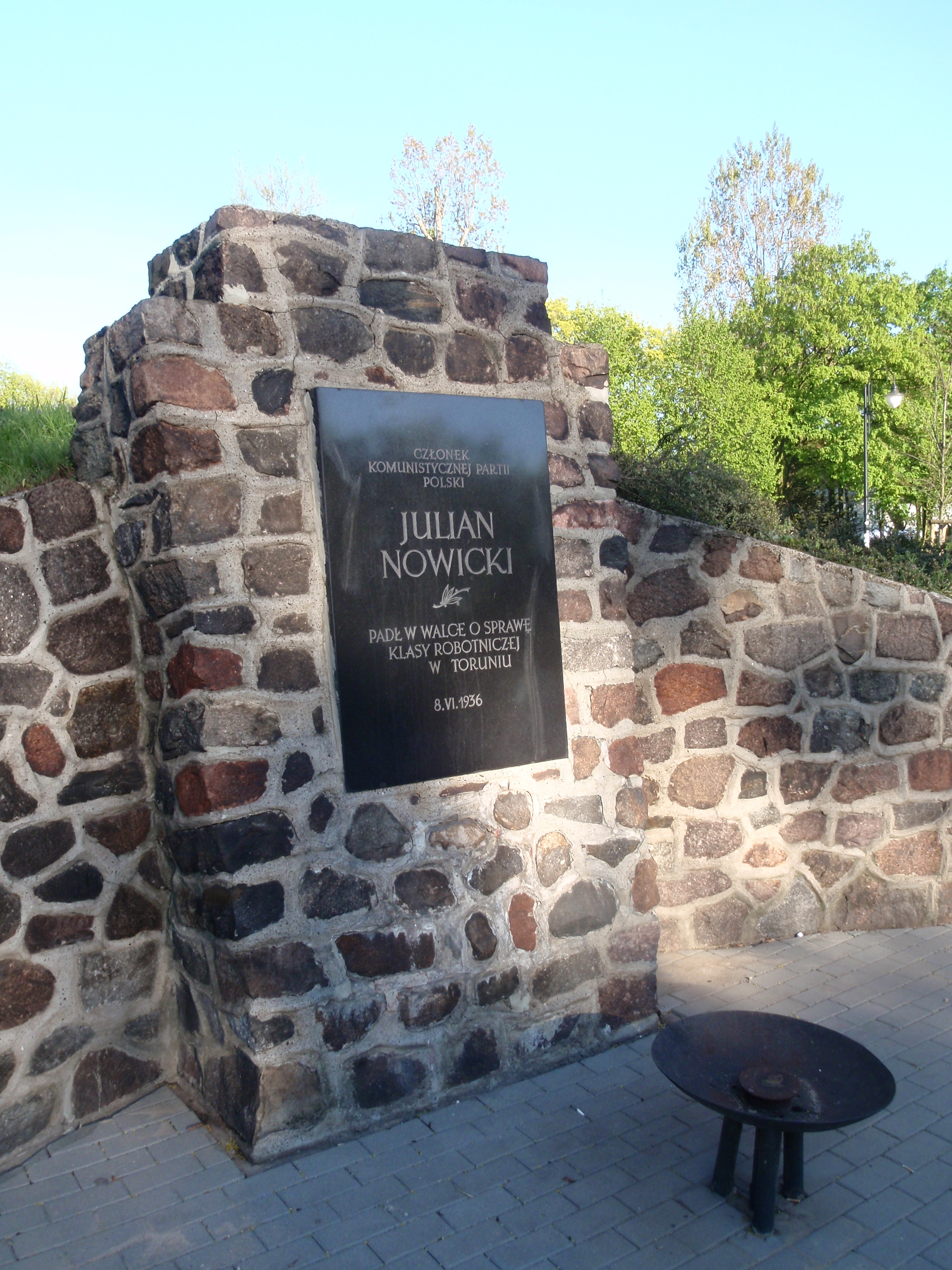 monument of Polish communist Julian Nowicki in Toruń, POLAND